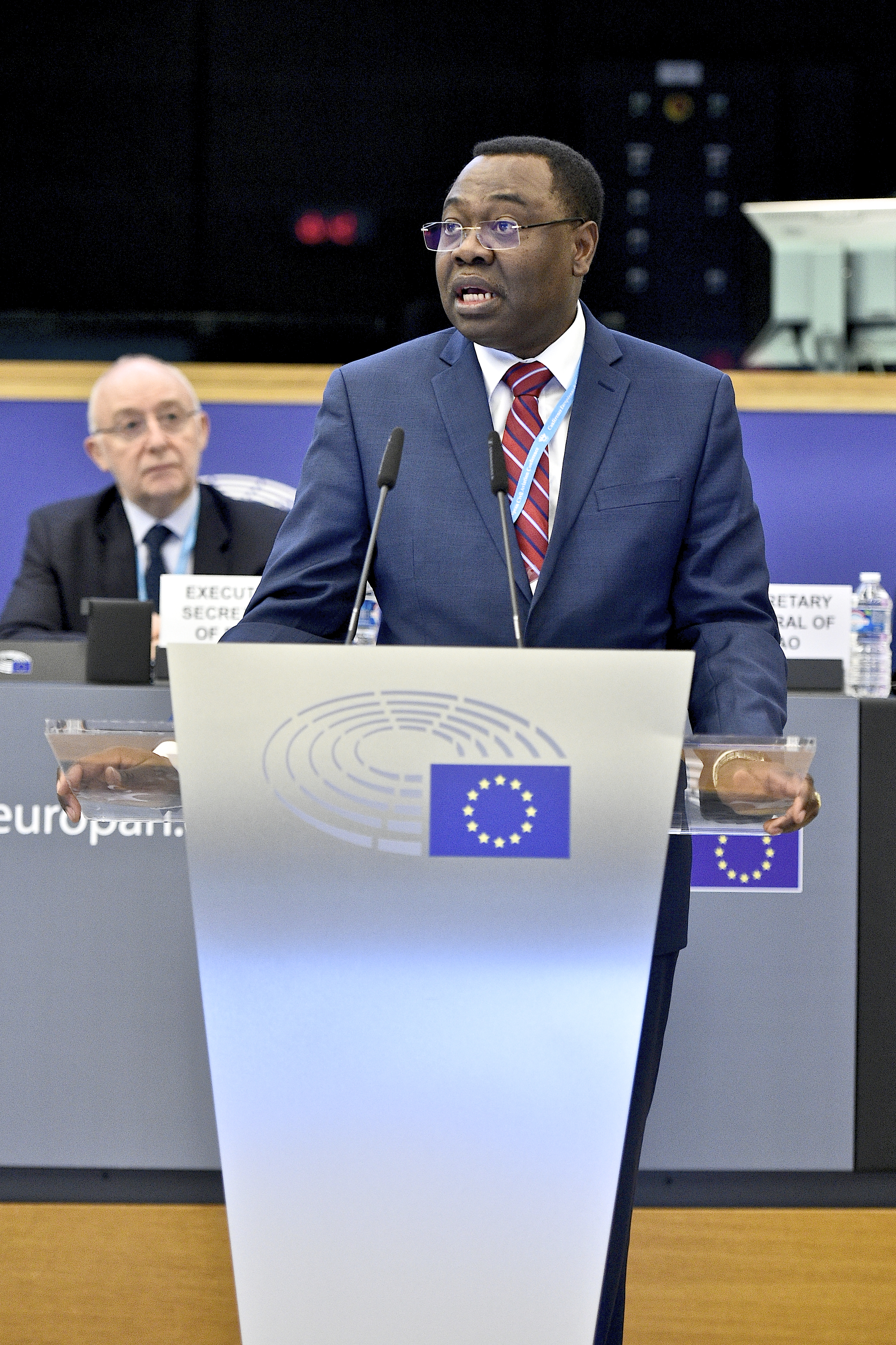 ECAC-CEAC 36th Plenary (triennial) Session of the European Civil Conférence, Strasbourg 10/11 July 2018.